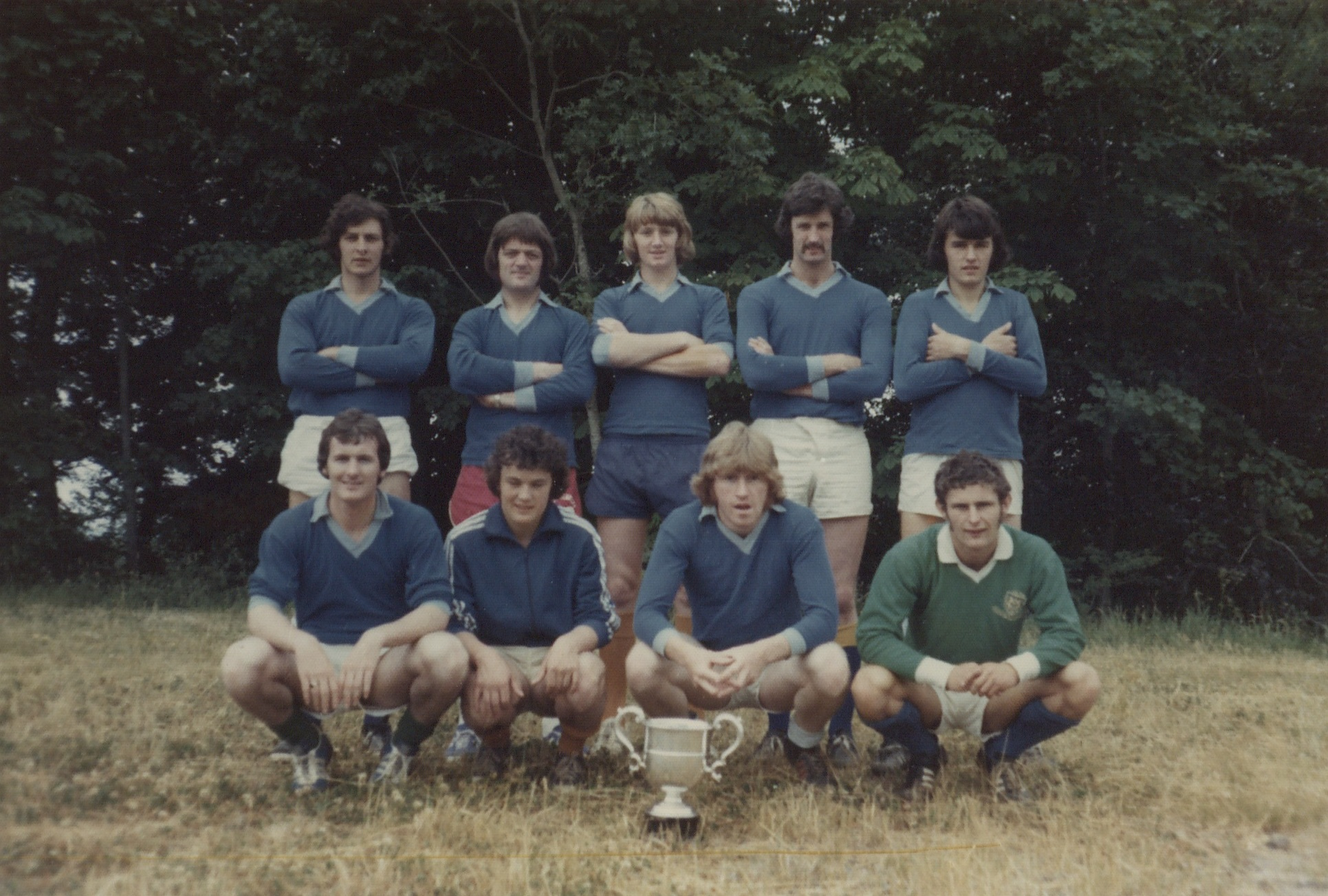 Ref: C1/782 Back row left to right: Brendan Lillis (Monaghan); Dave Weldrick (Dublin – Coach); Brian Talty (Galway); Andy Shorthall (Laois); Larry McCarthy (Cork) Front row left to right: John Tobin (Galway); Eddie Mahon (Wexford); Jimmy Deenihan (Kerry – Captain); Ted Owens (Cork)